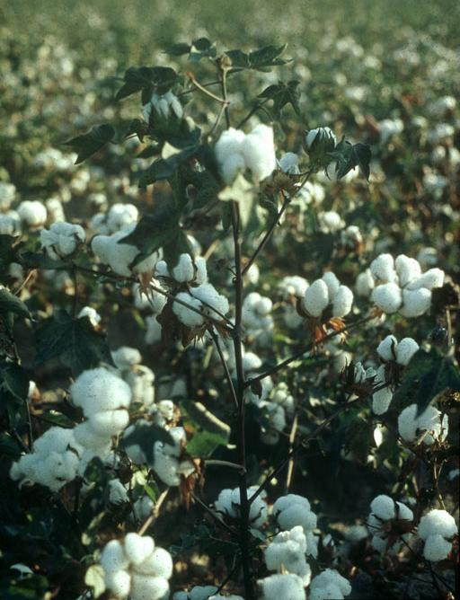 A full-grown cotton plant in Akola, India.